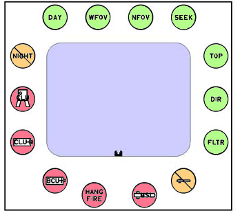 Javelin CLU Indicator (colored)